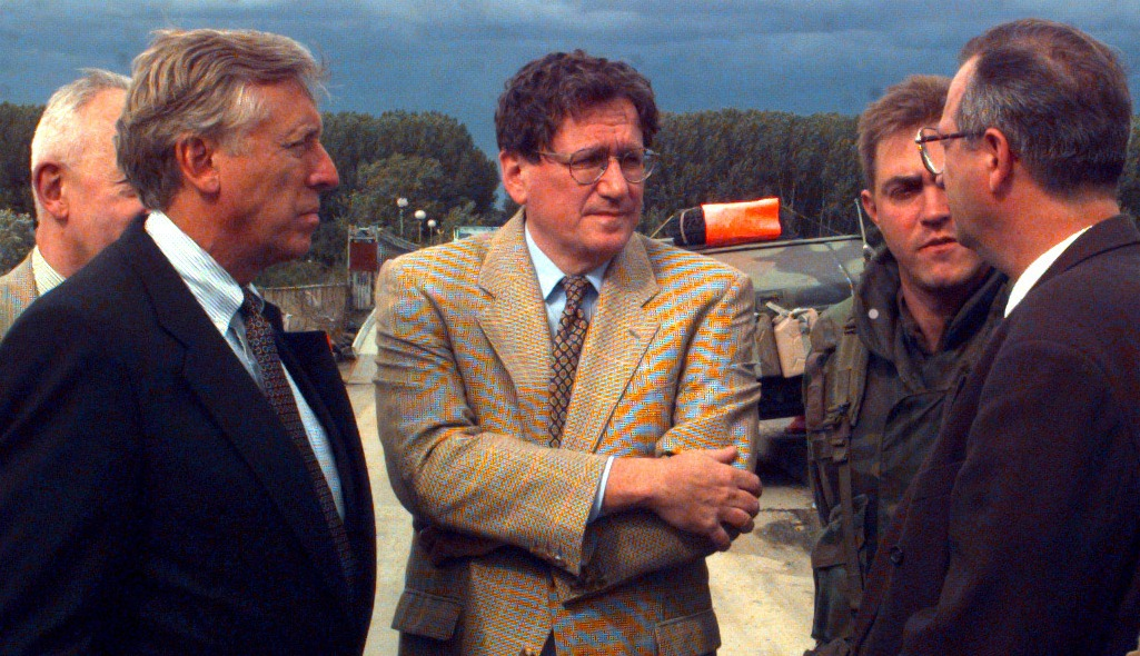 Congressman Steny Hoyer (left), D-Maryland, and Richard Holbrooke (center, left), United States mediator and architect of the Dayton Peace Agreement, talk with Miodrag Pajic (center, right with glasses), mayor of Brcko, Bosnia, about the elections, assisted by Department of Defense interpreter Dragan Minc (standing between Holbrooke and Pajic).